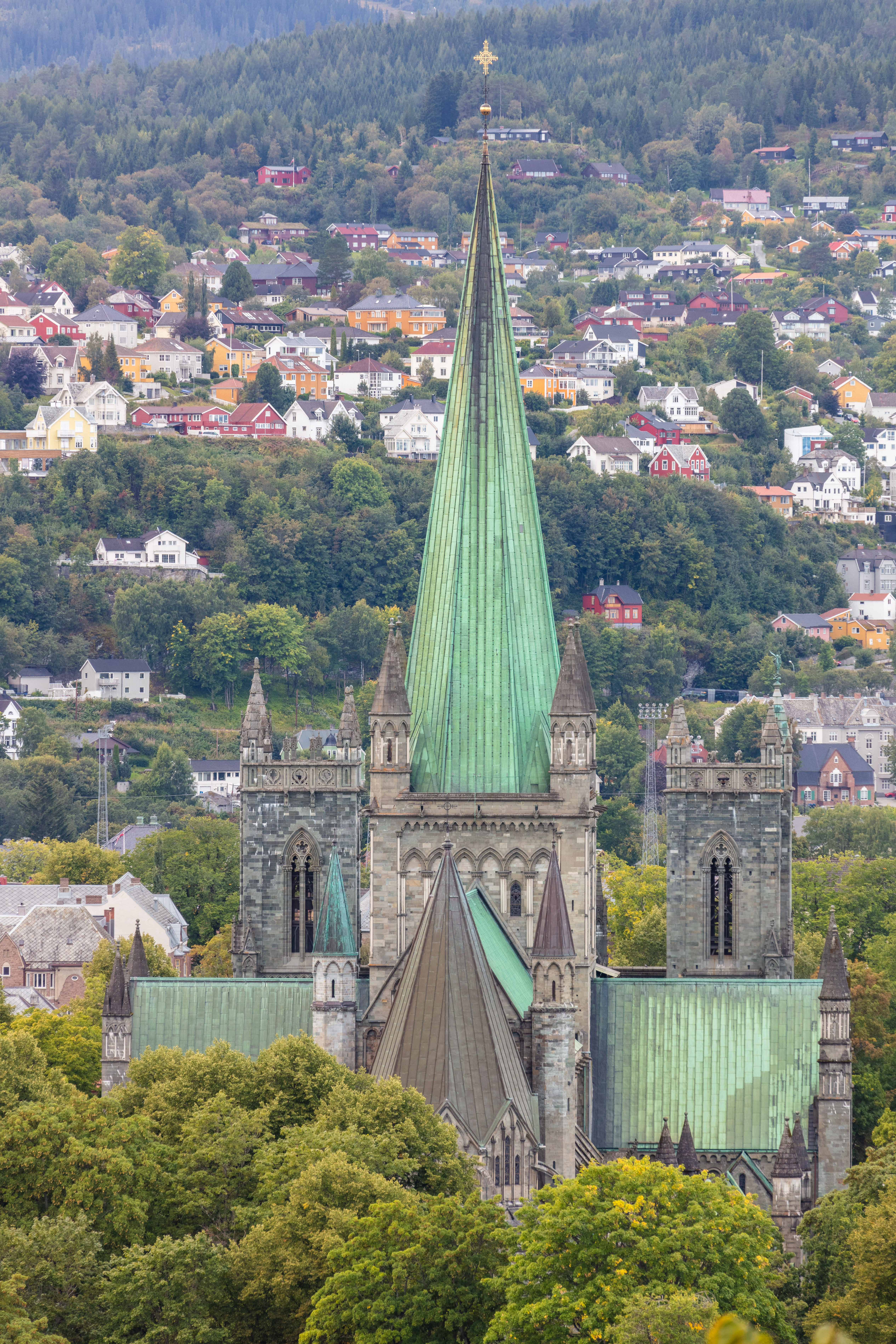 Nidaros Cathedral, Trondheim, Norway